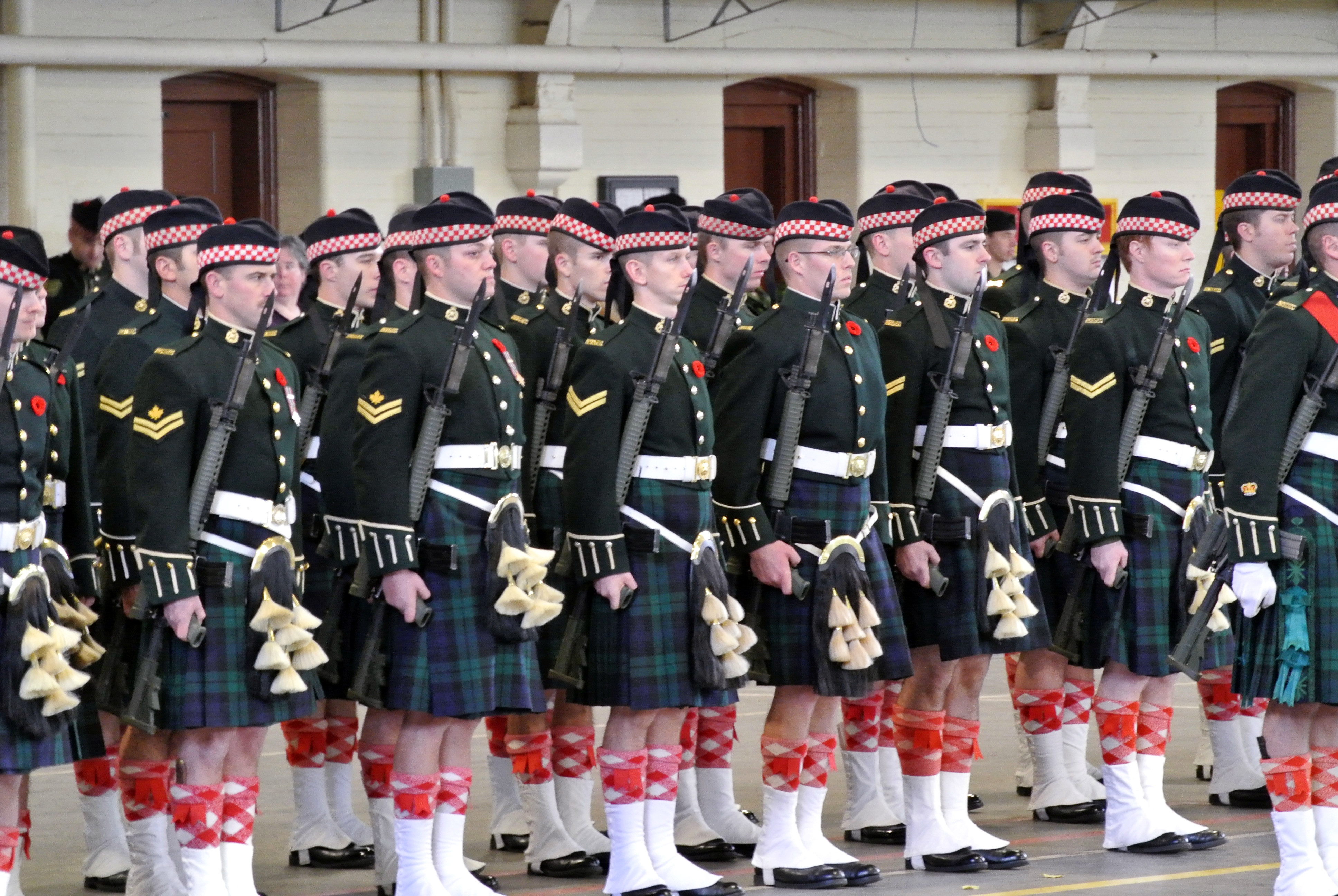 Argyll and Sutherland Highlanders of Canada - Veterans Parade 2013